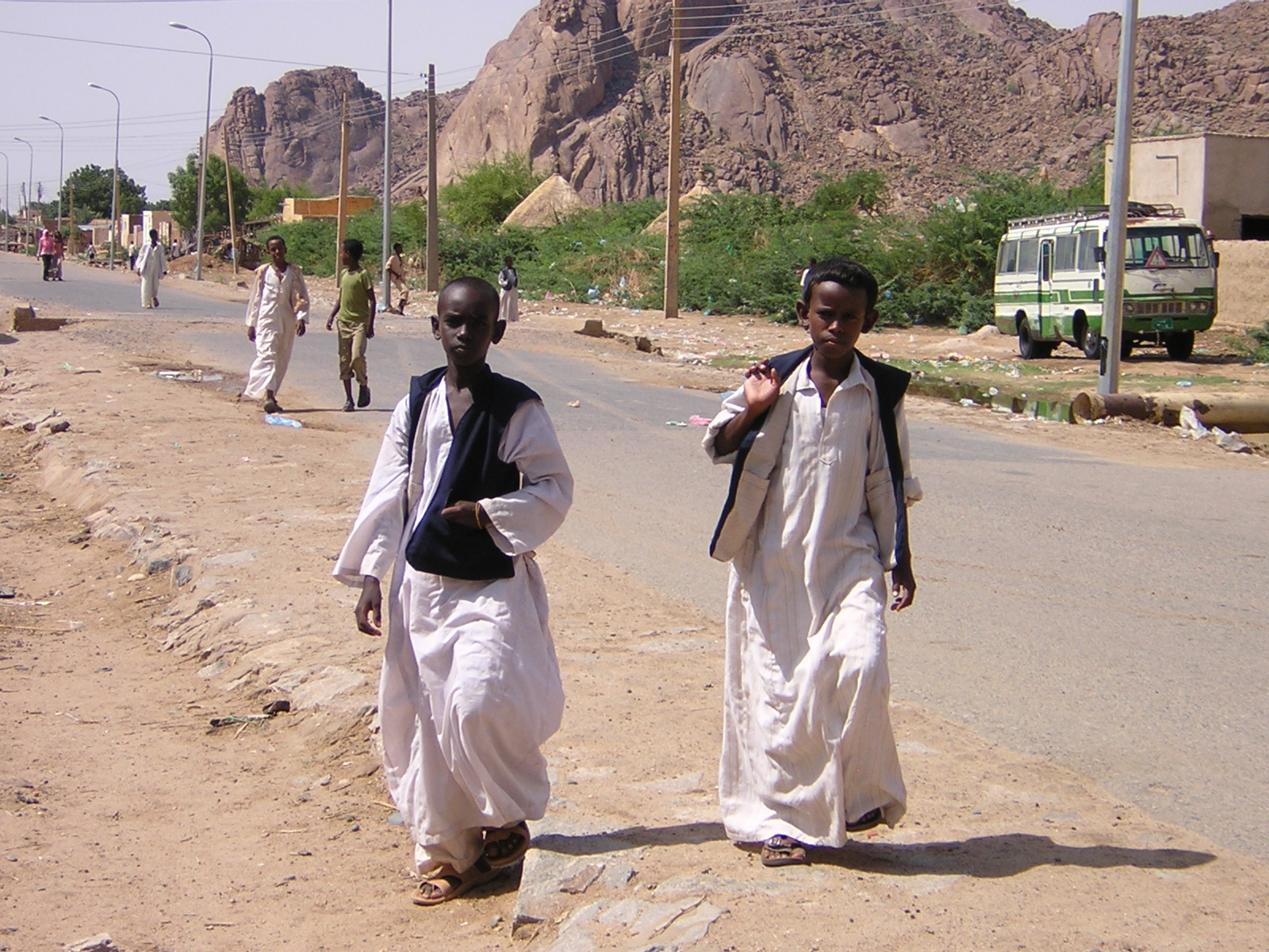 Boys on a street in Toteil near Kassala, Sudan.